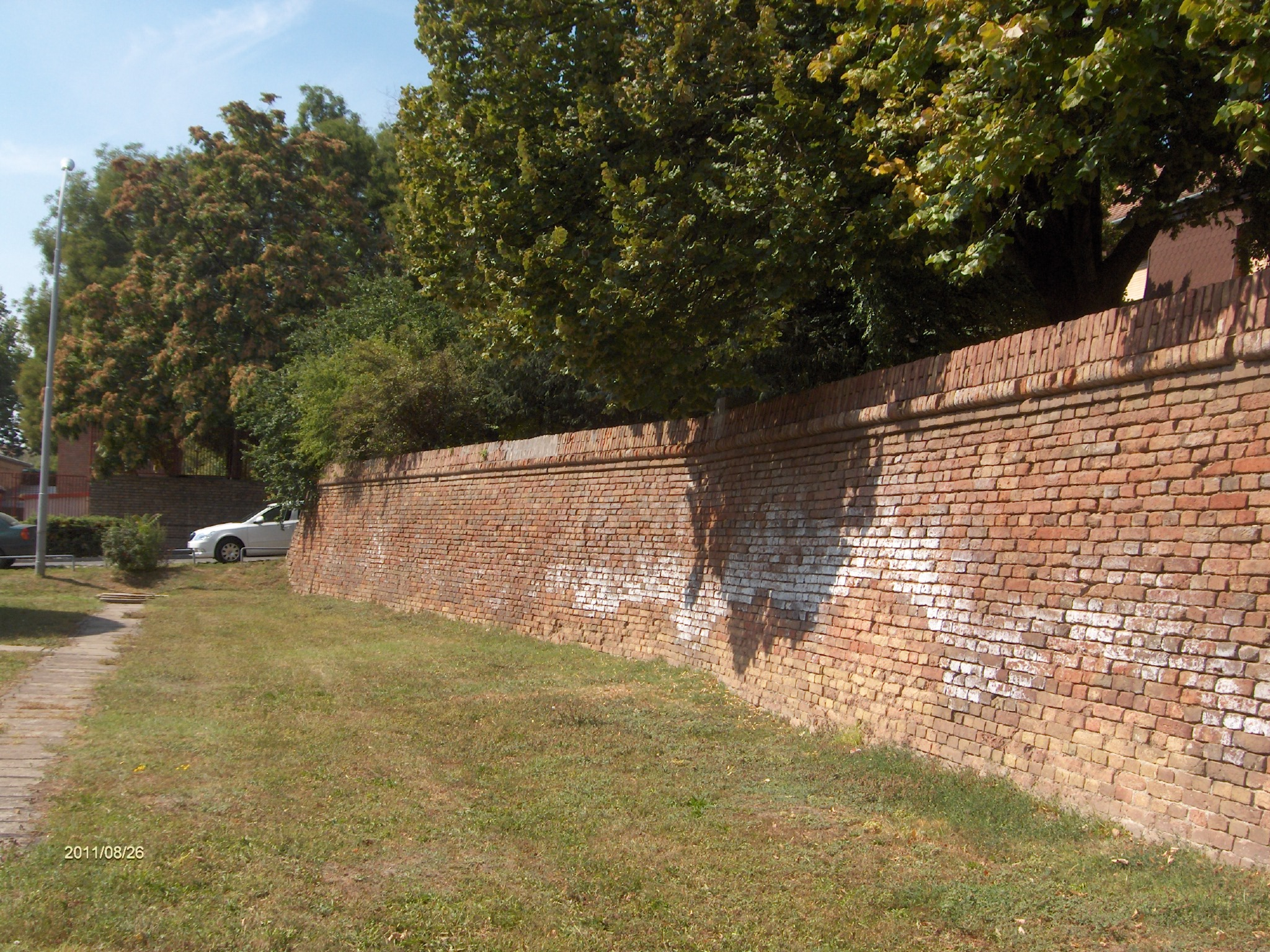 Old flood protection wall in the city of Hódemzővásárhely